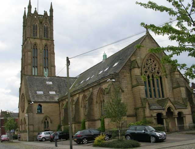 Photograph